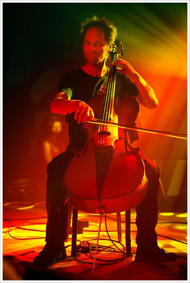 Patrick Cybinski of Guts Pie Earshot live at Fusion Festival 2010